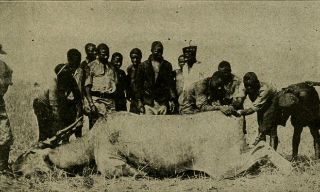 Skinning an eland